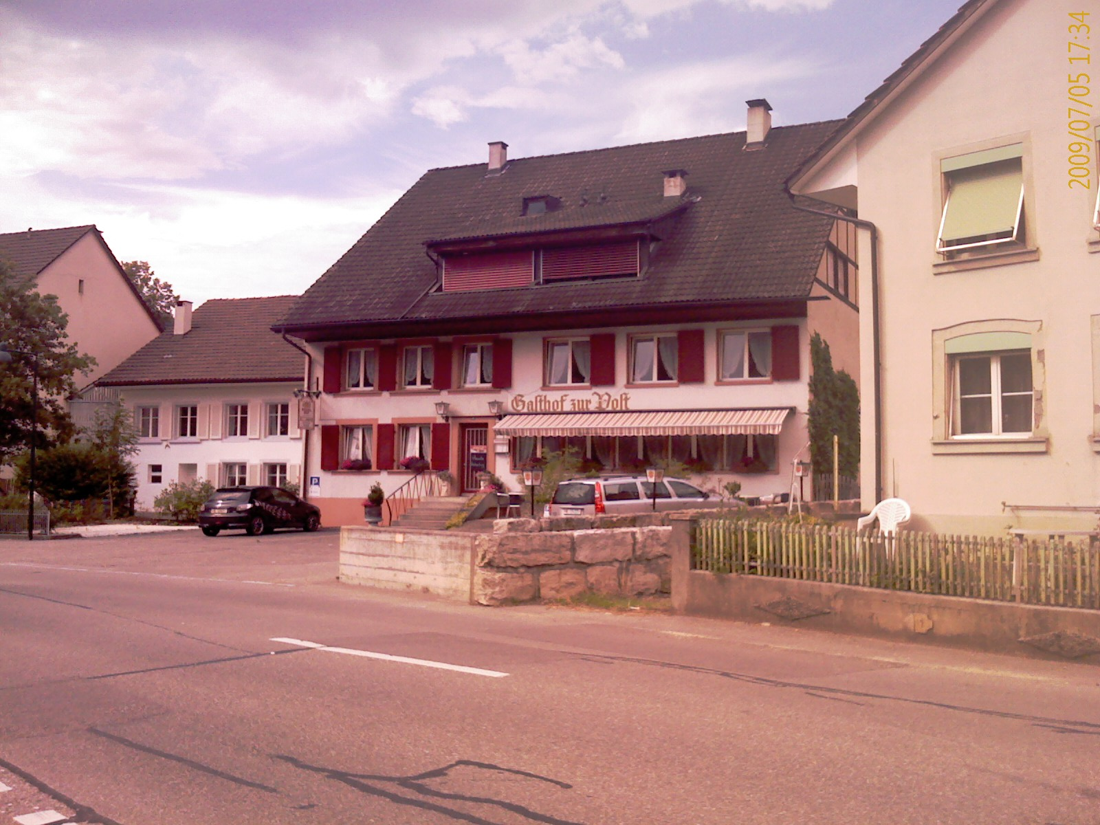 Hostel Post at Ormalingen, canton of Basel-Country, SwitzerlandEsperanto: Gastejo Poŝto en Ormalingen, Kantono Bazelo Kampara, Svislando